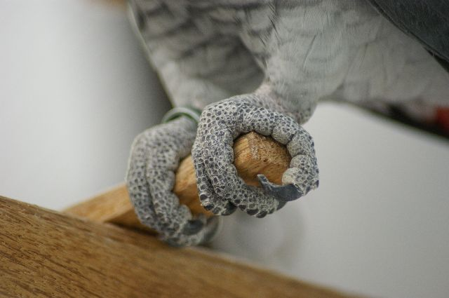 The feet of an Congo African Grey Parrot.